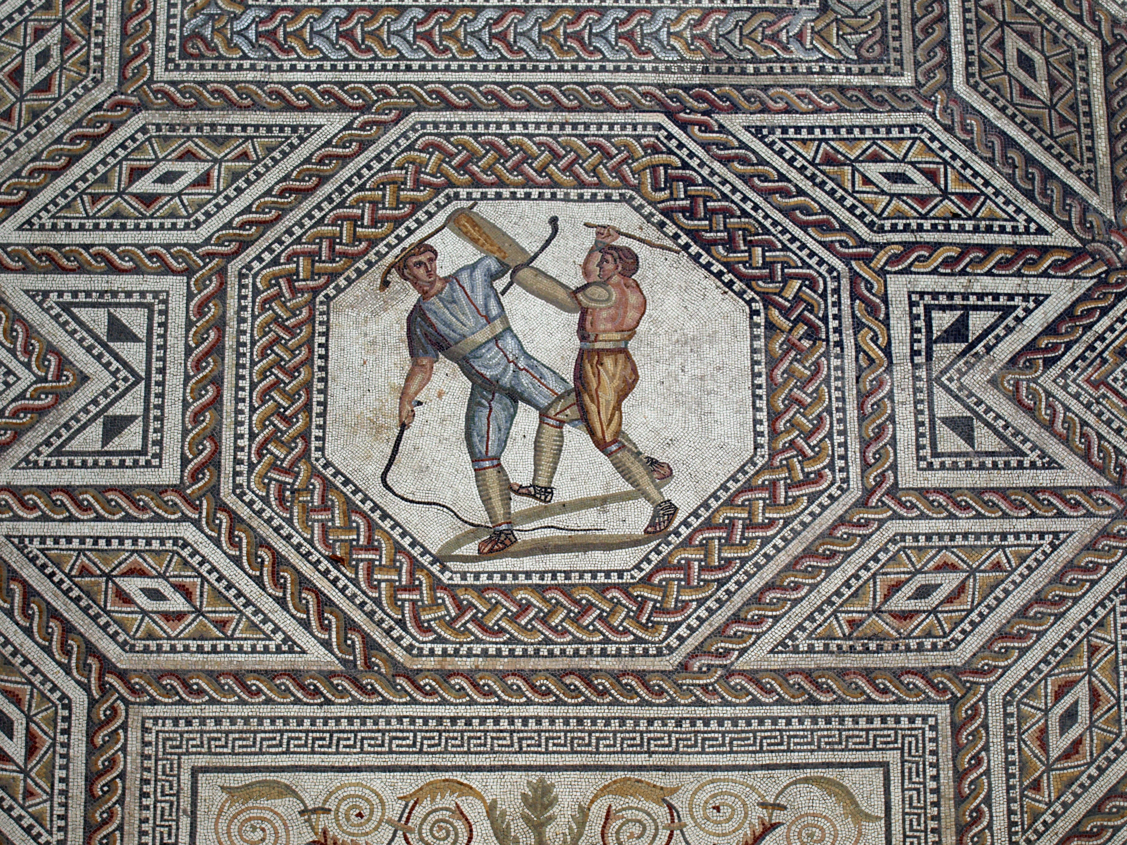 Mosaic depicting a gladiators fight ( "mock contest" ). Roman Villa, Nennig, Germany.